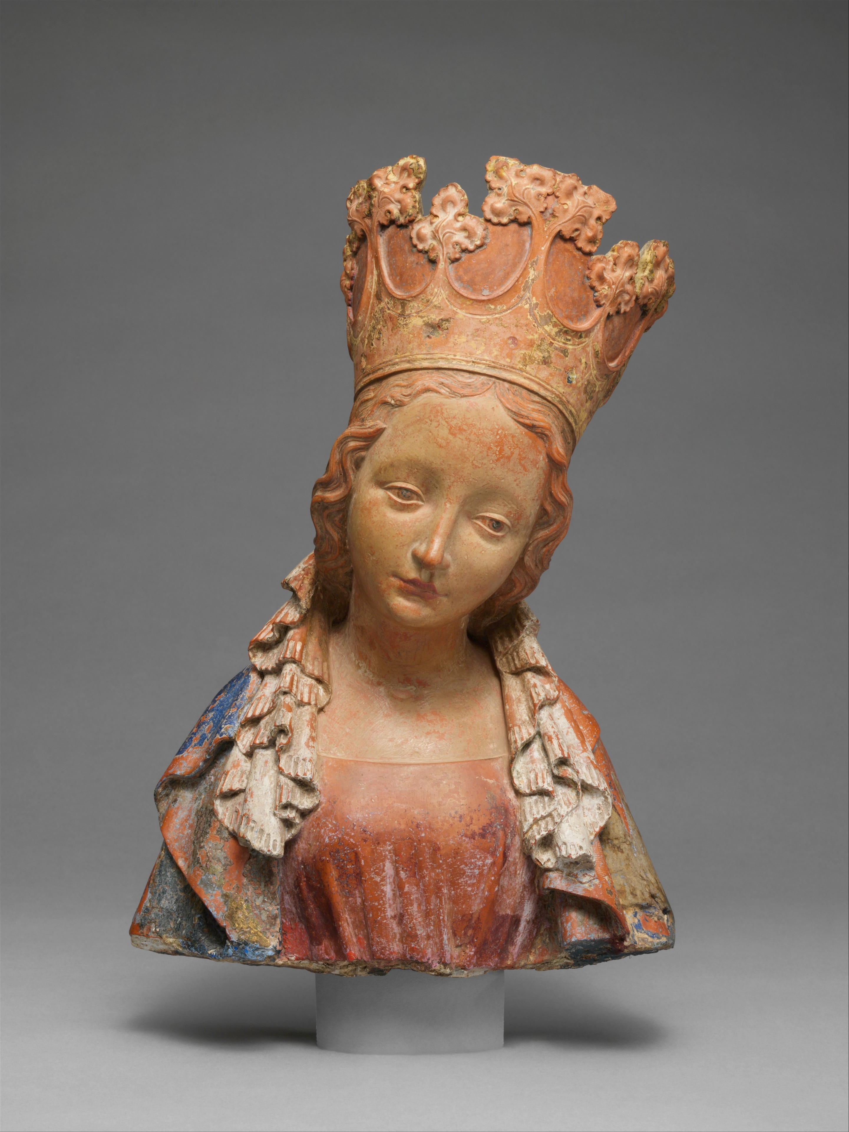 Bohemian; Bust; Sculpture-Ceramics